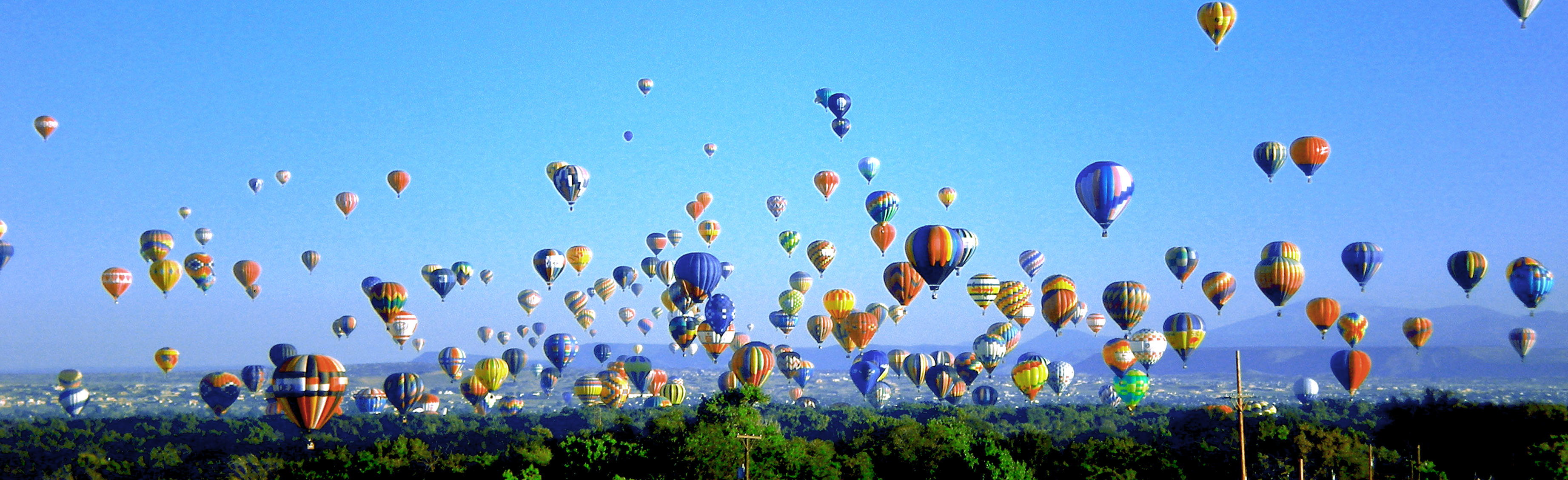 The Albuquerque, New Mexico International Balloon fiesta. (October 2007)